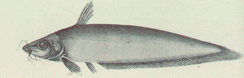 Neosilurus hyrtlii Subject: Catfishes, Neosilurus Tag: Fish